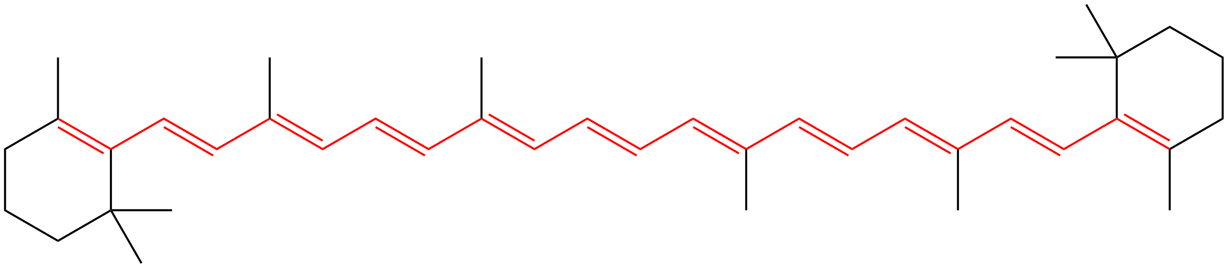 beta-carotene with conjugation highlighted